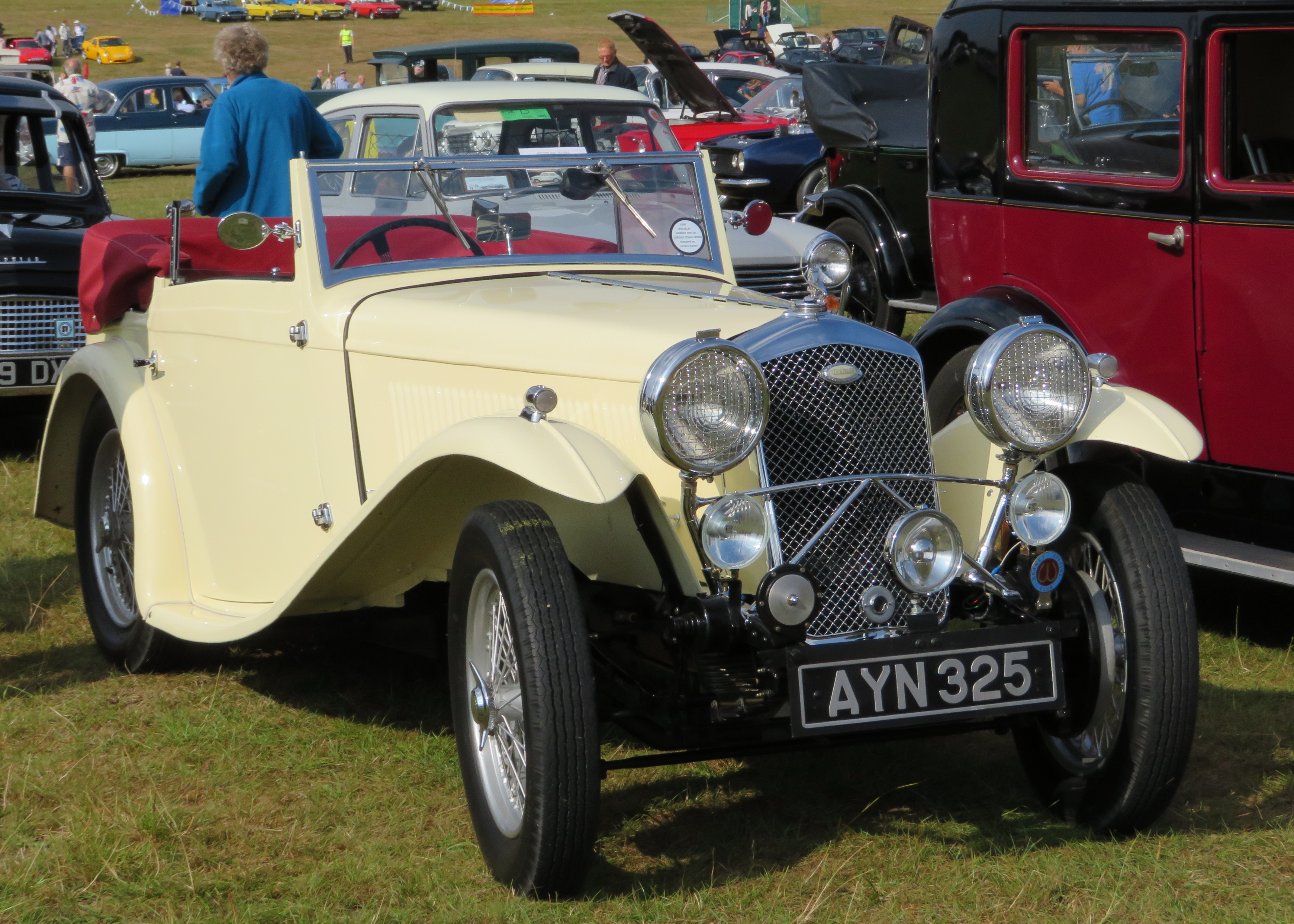 Wolseley Roadster 1271cc